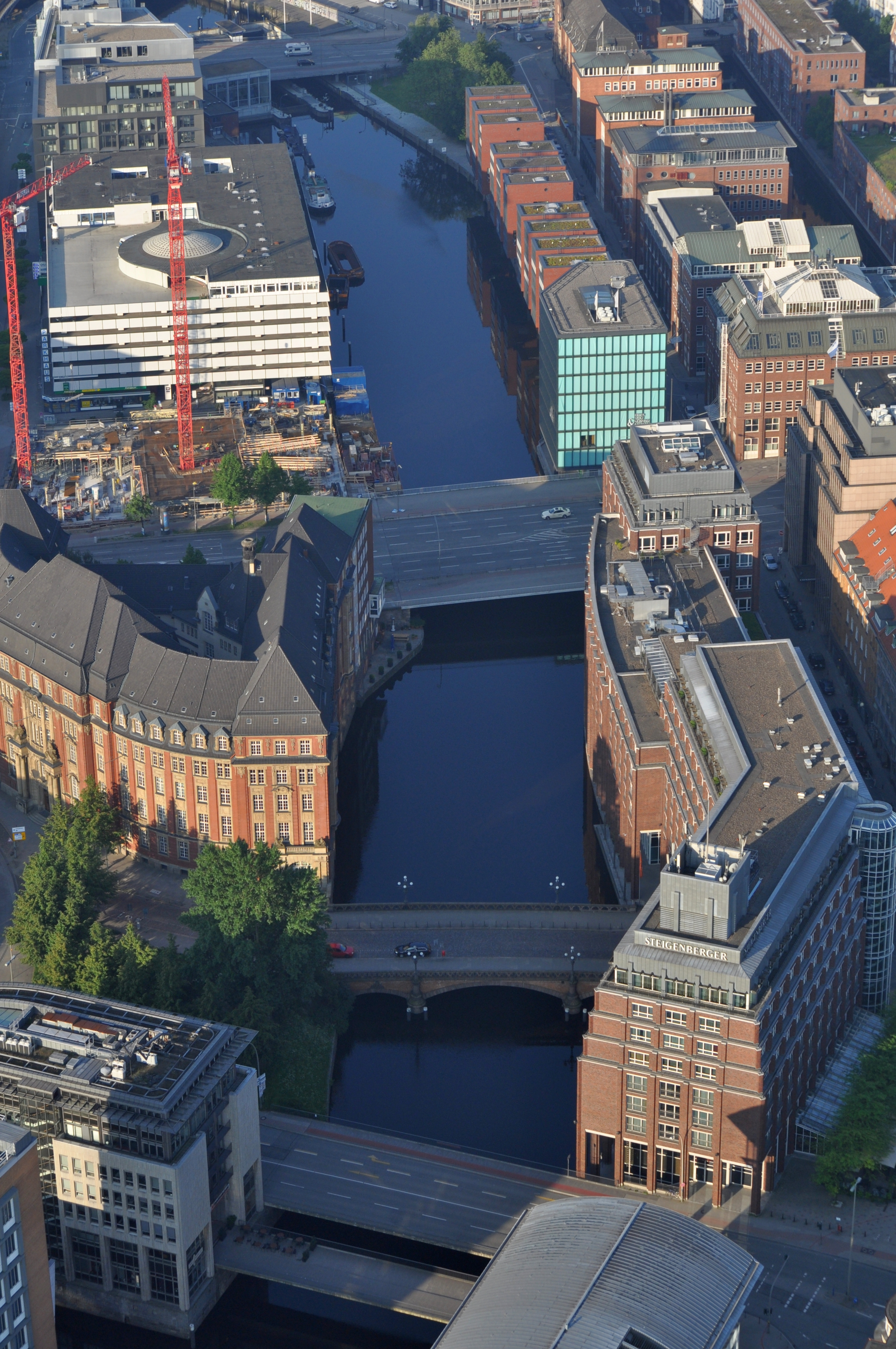 Alsterfleet in Hamburg with Schaartorschleuse, Slamatjenbrücke, Heiligengeistbrücke, and Graskellerbrücke (top down).